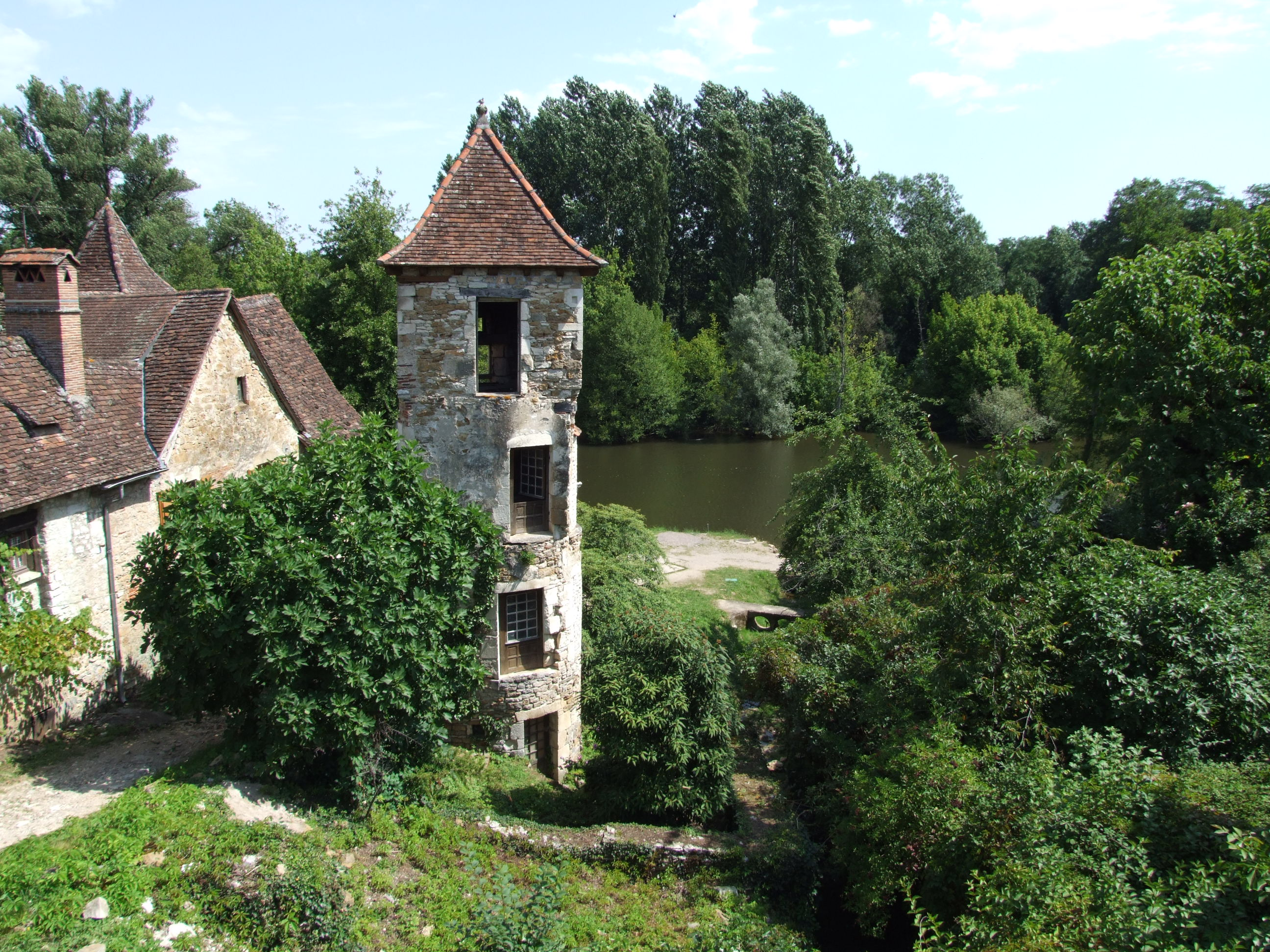 Carennac, Lot, FRANCE